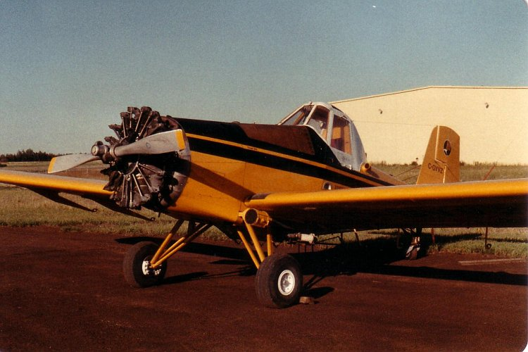 I took this photo of an Ayres S-2R Thrush at St Albert Aerodrome, Alberta in 1984